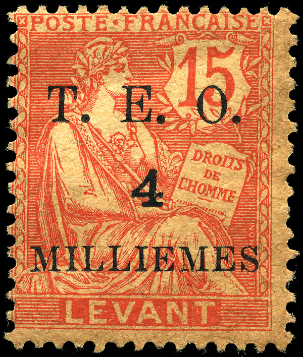 Syrian 4m "TEO" overprint stamp of 1919